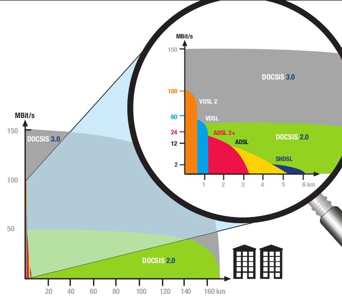 Docsis operating distance